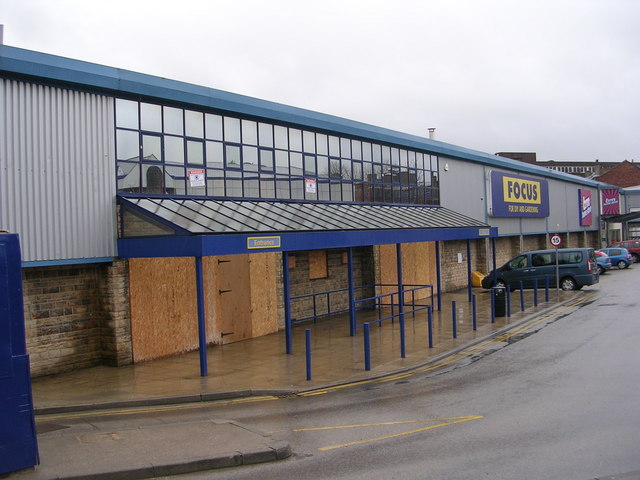 Focus DIY - Cavendish Street Retail Park